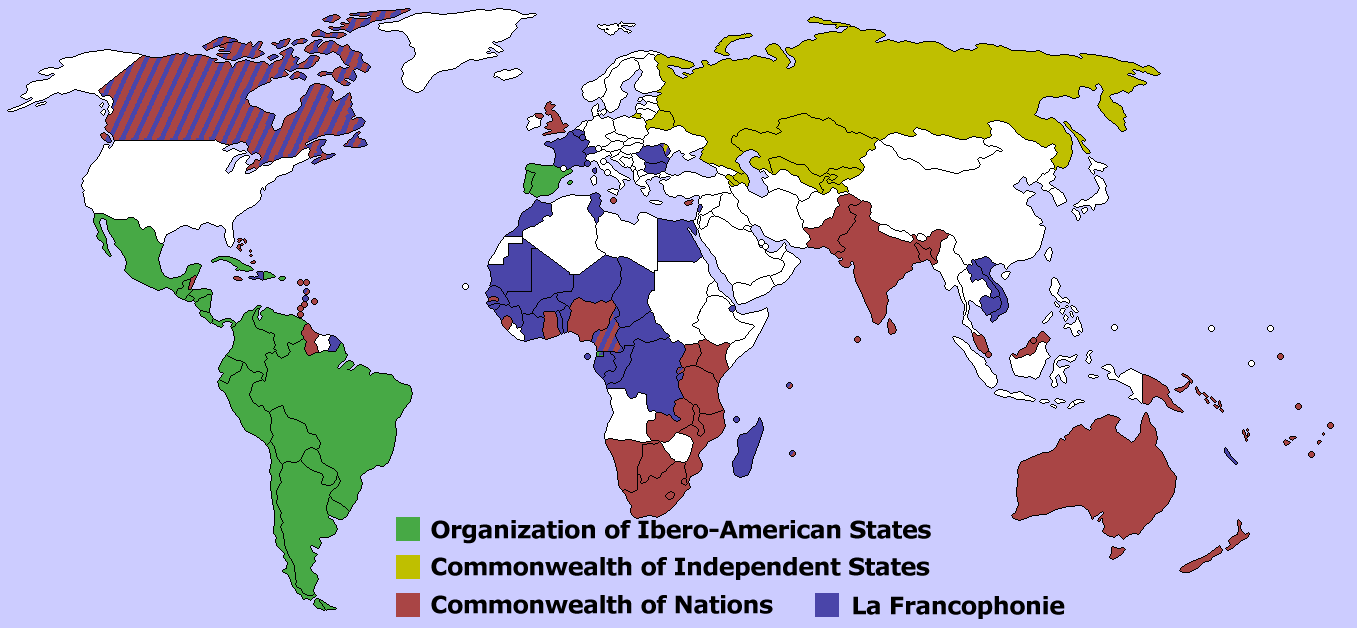 Map of organisations which are legacies of empires.